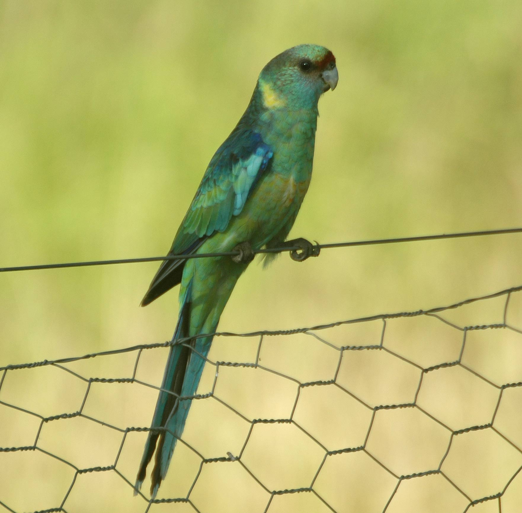 Mallee Ringneck (Barnardius barnardi) Bowra, SW Queensland, Australia